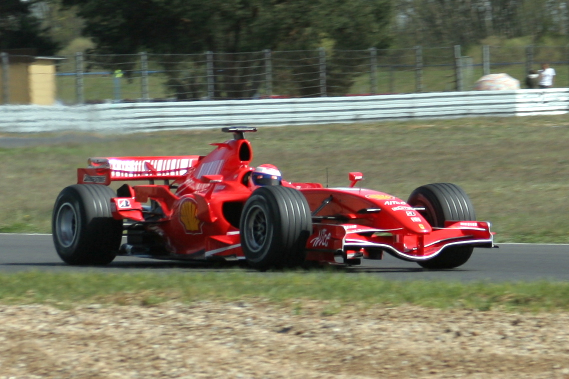 Marc Gené testing for Ferrari in 2007.